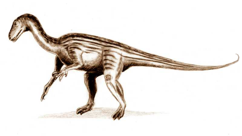 Thecodontosaurus, pencil drawing, based on skeletal reconstruction by Benton et al., 2000 Author:User:ArthurWeasley